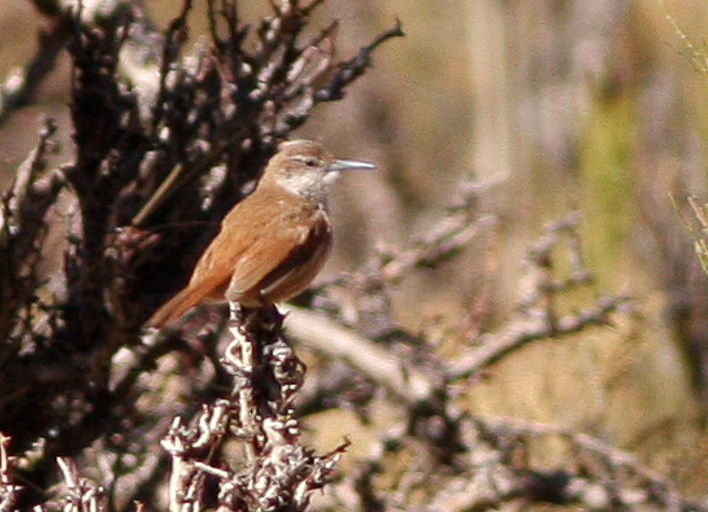 Straight-billed Earthcreeper (Ochetorhynchus ruficaudus), Uquia to Yavi, Salta, Argentina